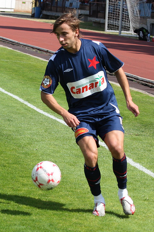 Dušan Švento, Slovak football midfielder, currently player of SK Slavia Prague. Shot in preseasonal friendly match against Viktoria Plzeň